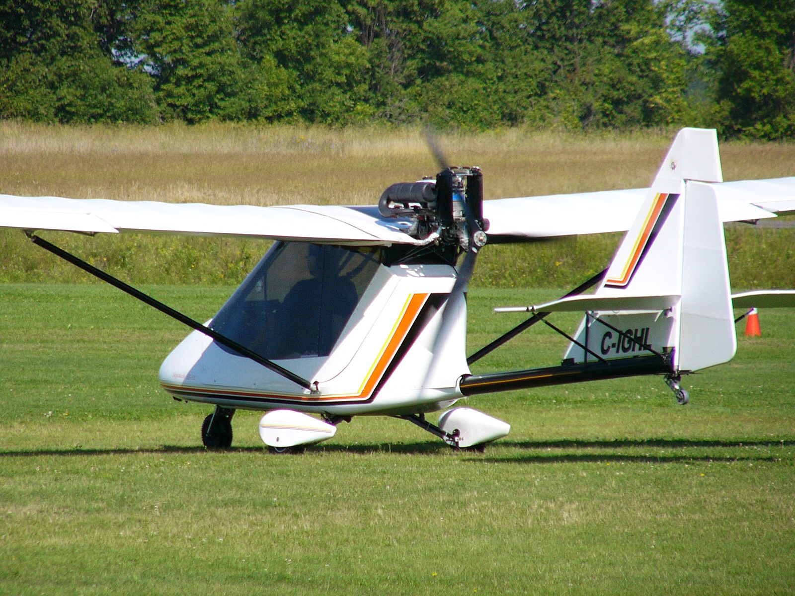 Freedom Lite Skywatch SS-11 at the Alexandria, Ontario, Canada Fly-in